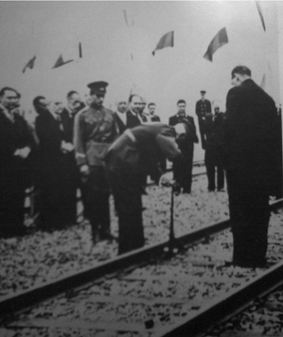 First train passes over Veresk Bridge, (From the book "Travel literature of Reza Shah (1976)")